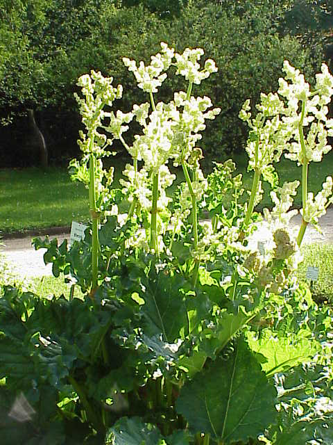 Species: Rheum officinale Family: Polygonaceae Image No. 2